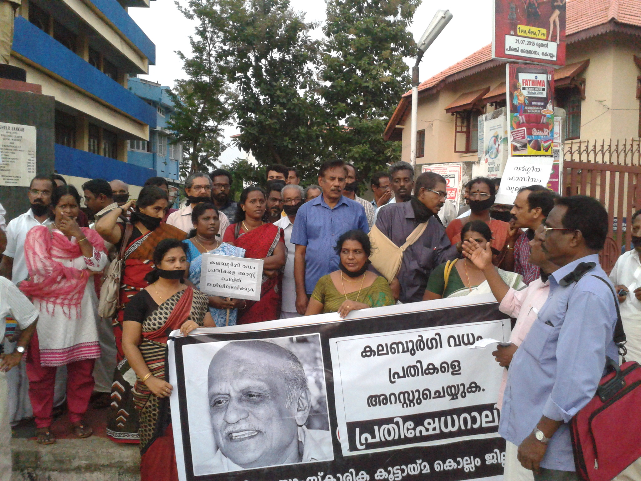 Protest against kalburgi murder at Kollam